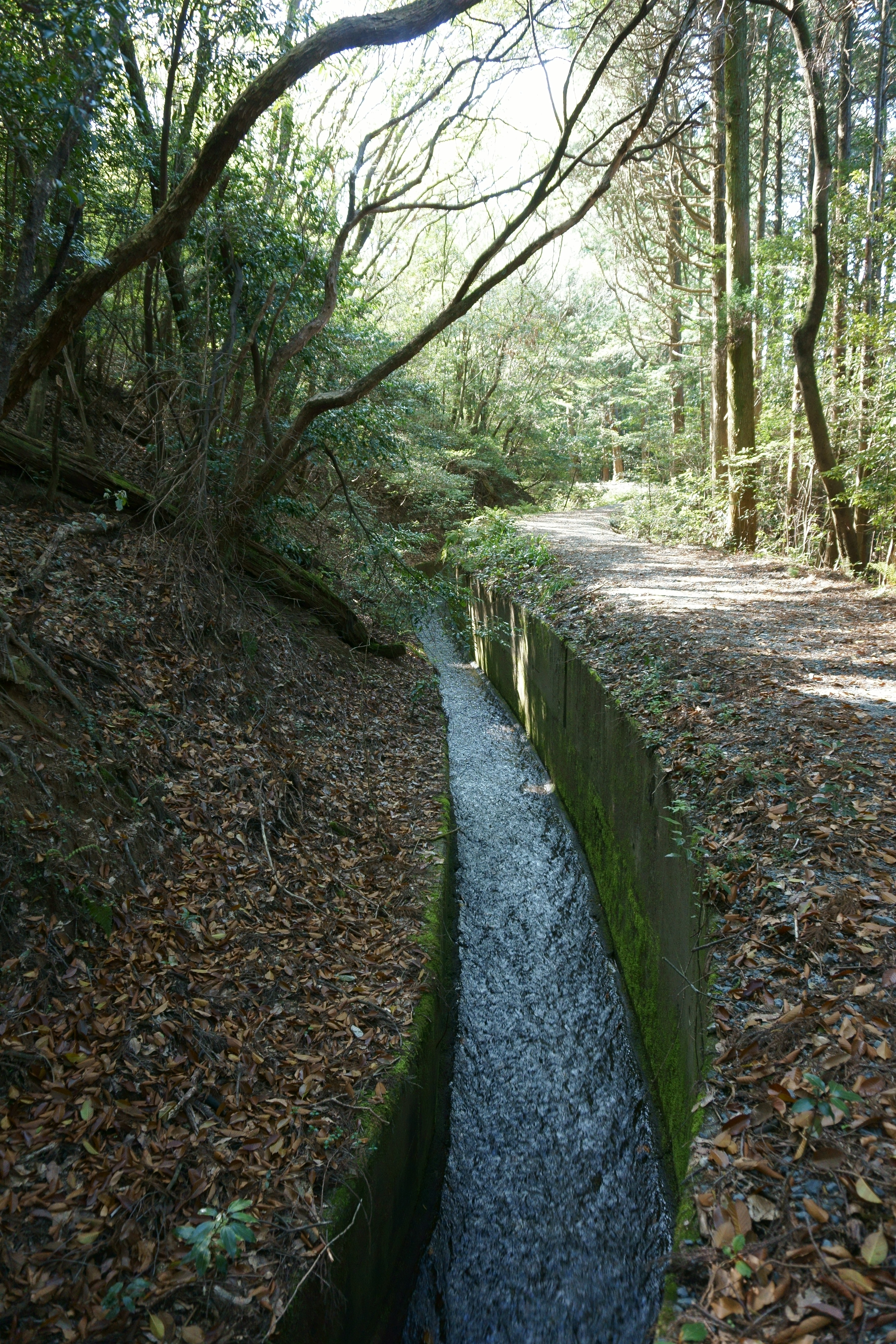 Hamaguri-suidō, an aqueduct on Mount Hamaguri, in Yoshinogari town, Saga prefecture.